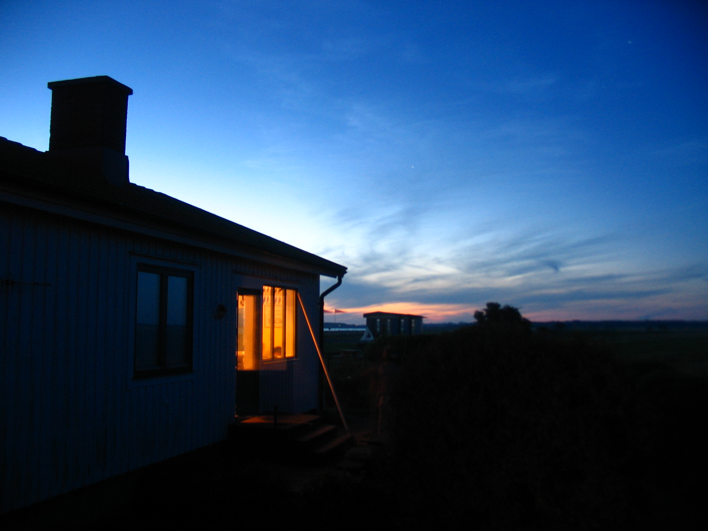 Ottenby Bird Observatory, main building